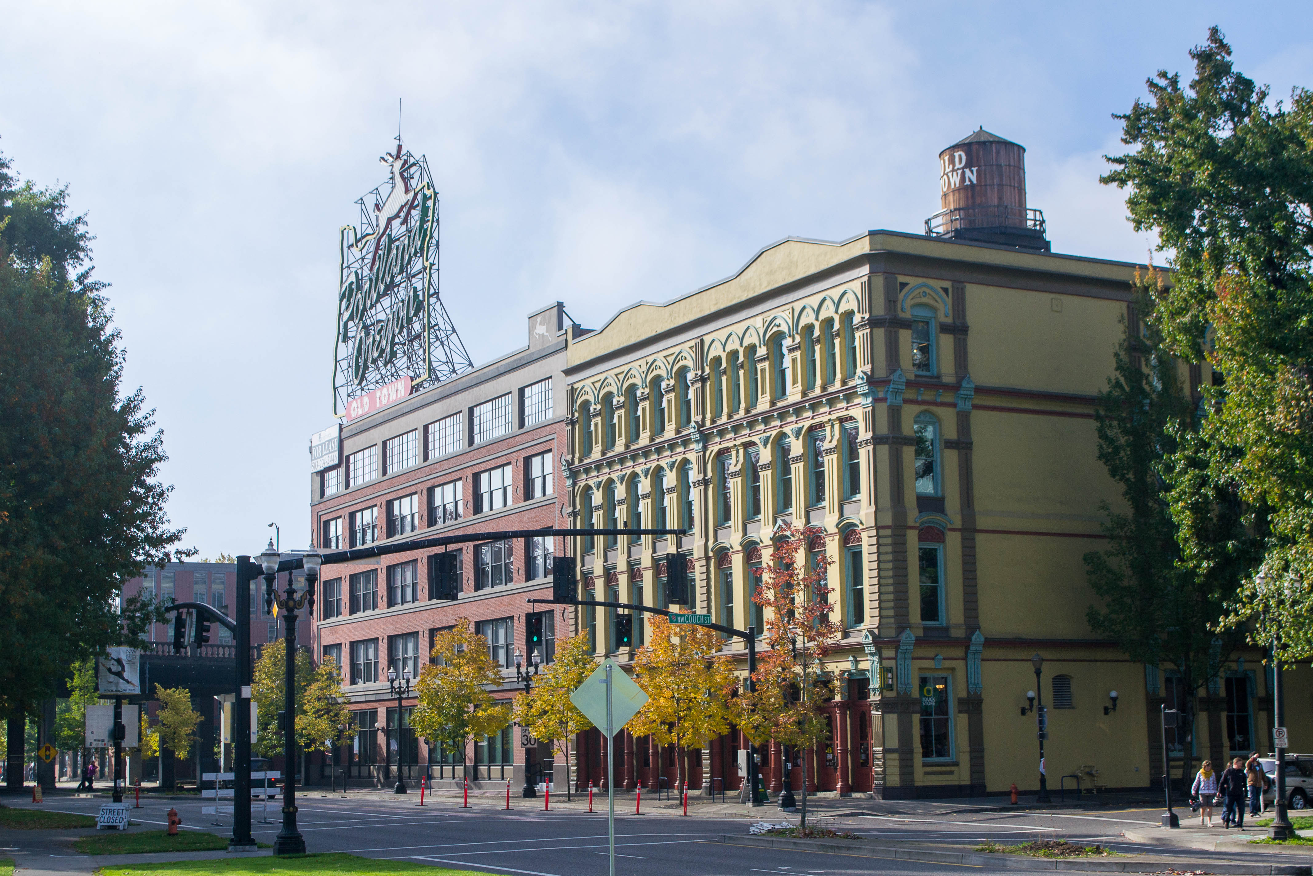 The White Stag Block, Portland campus of the University of Oregon. This view is looking southwest across the intersection of NW Naito Parkway (formerly Front Avenue) and Couch Street. The building closest to the camera is the Bickel Block (not to be confused with the Bickel Building, at 2nd & Ash), which in 2006 was merged with the adjacent White Stag Building (to the left of the Bickel Block in this view) and the also-adjacent (out of view, to the west) Skidmore Building. After being connected and renovated the three-building complex became known as the White Stag Block. The White Stag sign is visible on top of the White Stag Building.